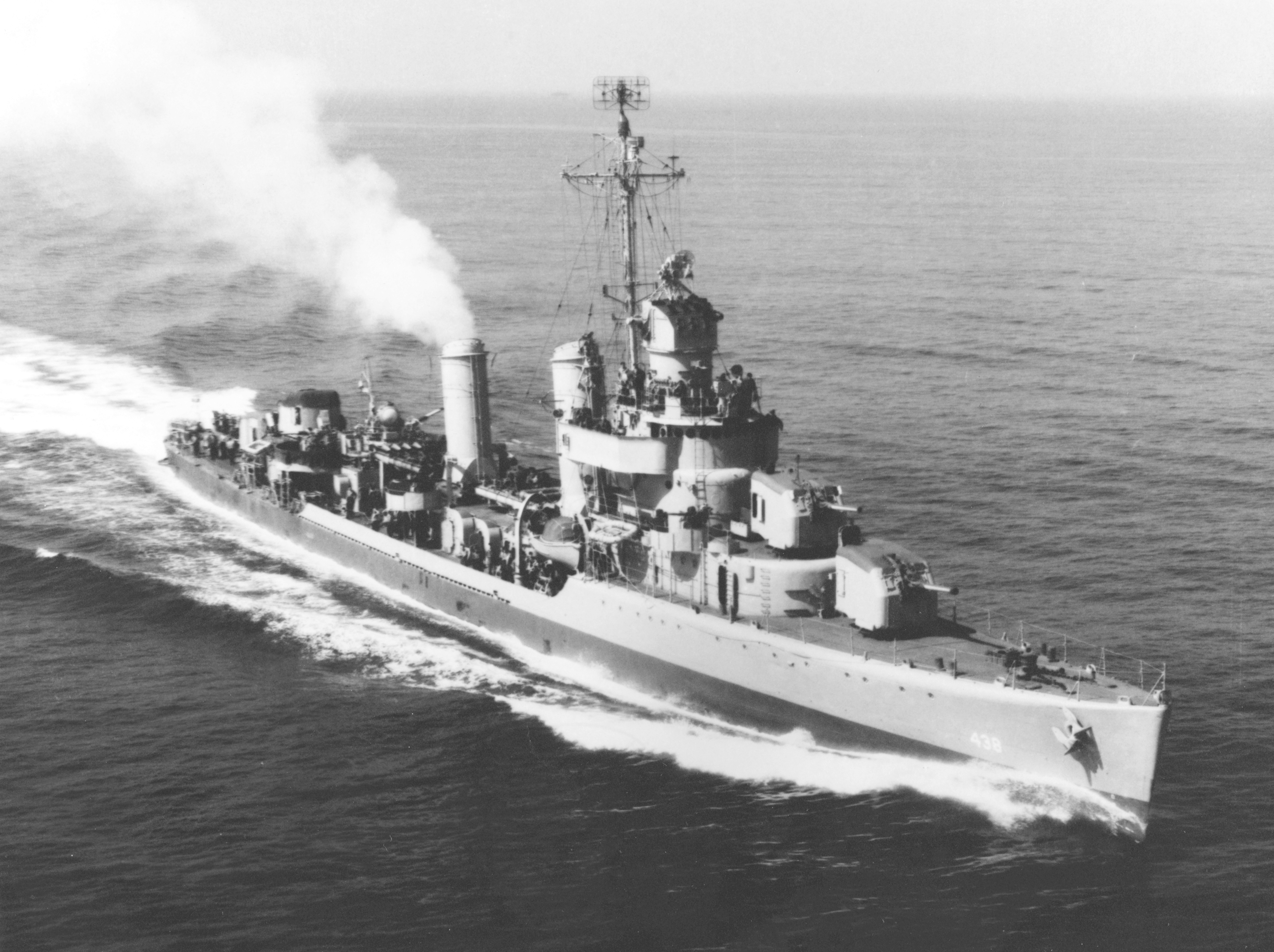 The U.S. Navy destroyer USS Ludlow (DD-438) underway off the Massachusetts (USA) coast, on 29 March 1945.